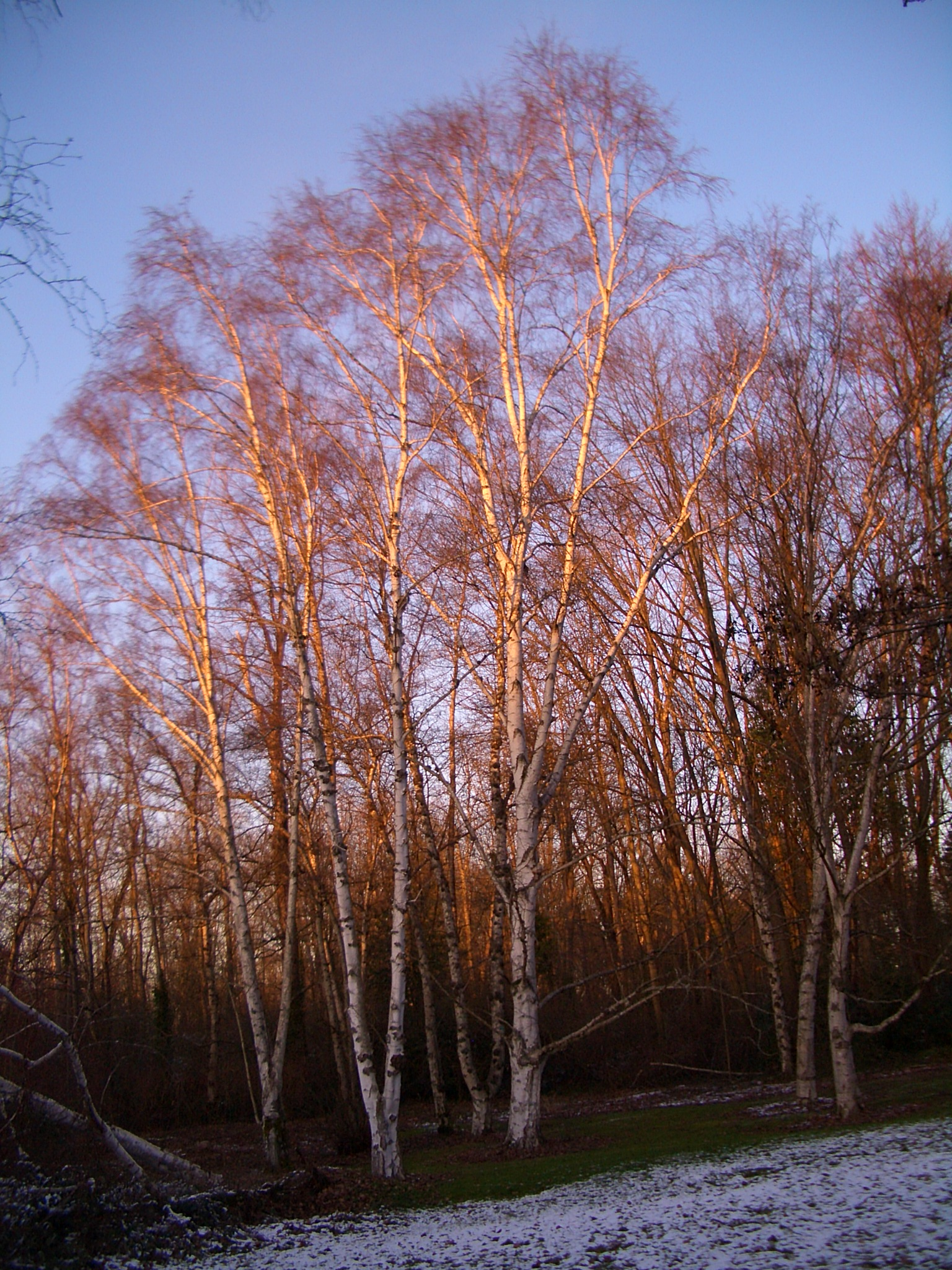 Birch trees near Duck Bay in Washington Park Arboretum on a snowy day.